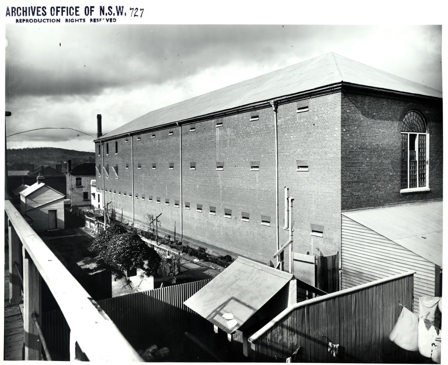 Old Bathurst Gaol Dated: c.1888 Digital ID: 4481_a026_000675 Rights: We'd love to hear from you if you use our photos. Many other photos in our collection are available to view and browse on our website using Photo Investigator .